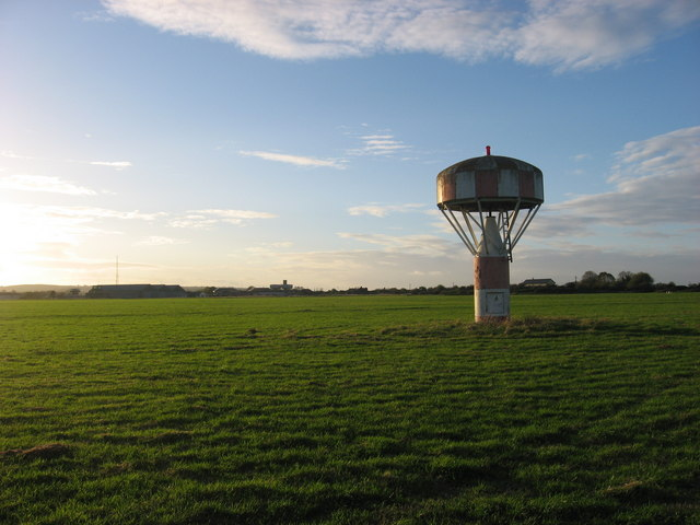 Disused aerodrome, Gormanston, Co. Meath Established in late-1917 as No. 22 Training Depot Station for the Royal Flying Corps, Gormanston Camp was variously used by the British Army, R.I.C. and Free State Army during the 1920s. Mothballed from 1928 until WW2. The Irish Air Corps transferred to here from Shannon in 1945 and it remained in use as an airfield until c. 2002. Camp and nearby firing range still used for training by the army.